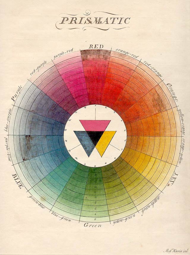 Moses Harris, in his book, The Natural System of Colours (1776). In a color palette, complimentary colors are two colors directly across from each other. For example, red and green are complimentary colors. Tetradic color palettes use four colors, a pair of complimentary colors. For example, you could use, yellow, purple red and green. Tetrad colors can be found by putting a square or rectangle on the color wheel.